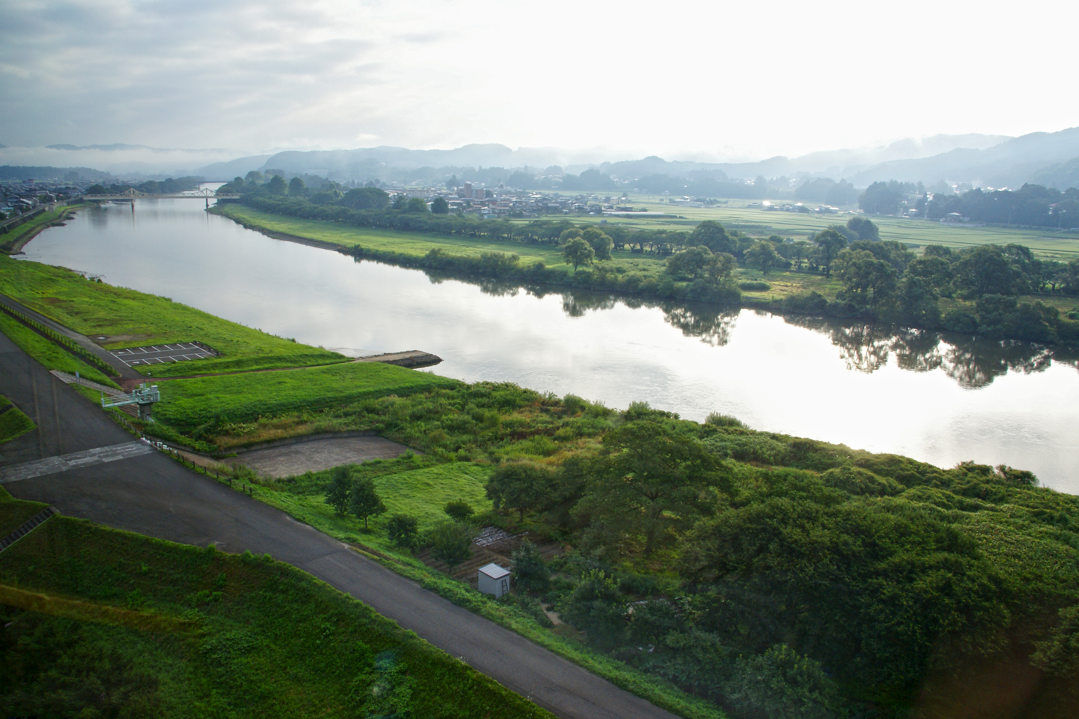 Kitakami River at Kitakami, Iwate prefecture, Japan